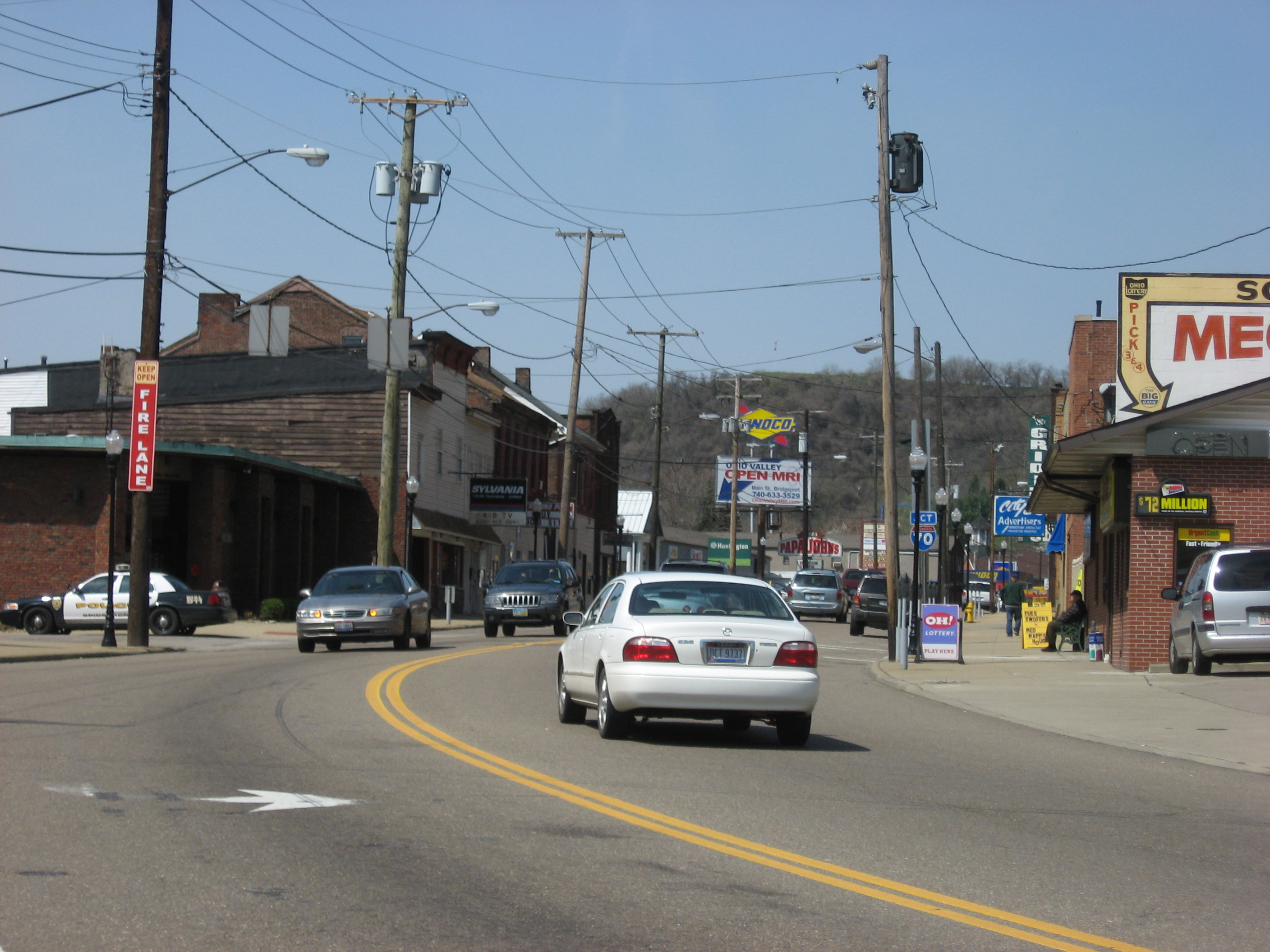 Downtown Bridgeport, Ohio, United States. Picture is taken looking westward from the eastern end of Main Street (U.S. Route 40).